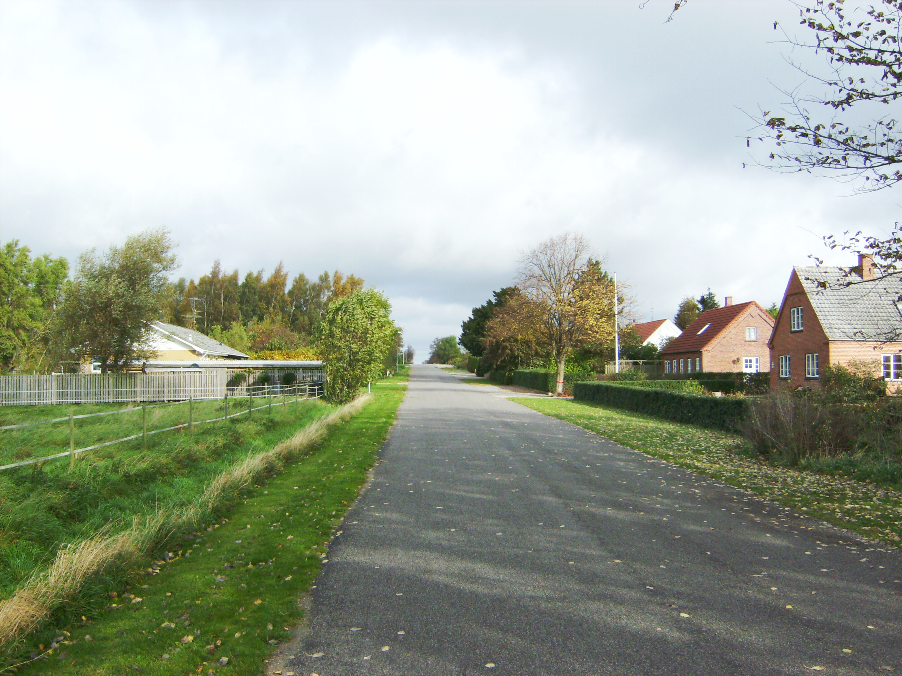 Part of the village Kettinge, Denmark